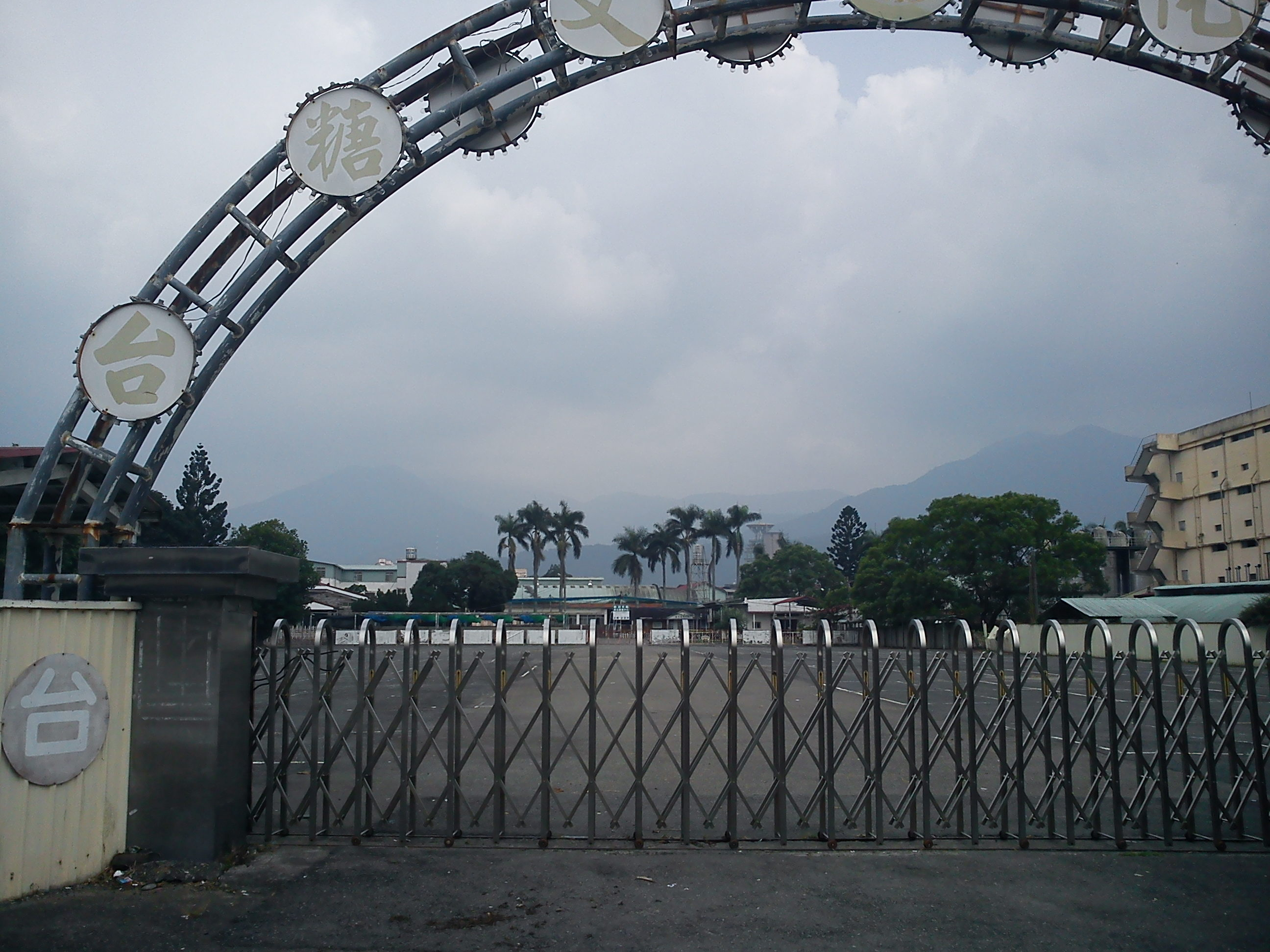 Scene of Taisugar Company nowadays in Puli